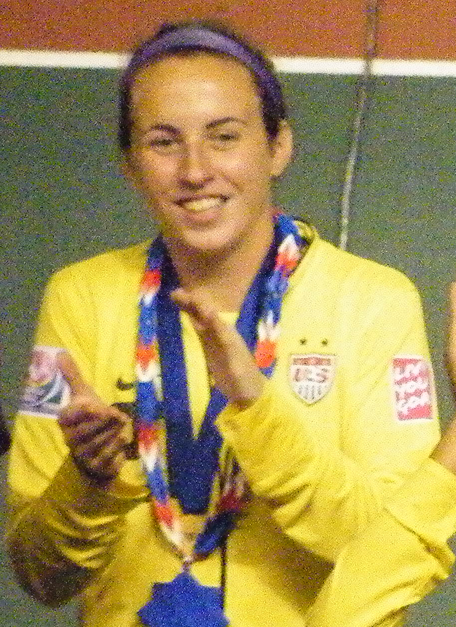 FIFA U-20 Women's World Cup 2012 Awards Ceremony; Players from left to right: 21—Jami Kranich (GK), 18—Abby Smith (GK), 19—Stacey Amack, 15—Kasey Kallman, 11—Becca Wann